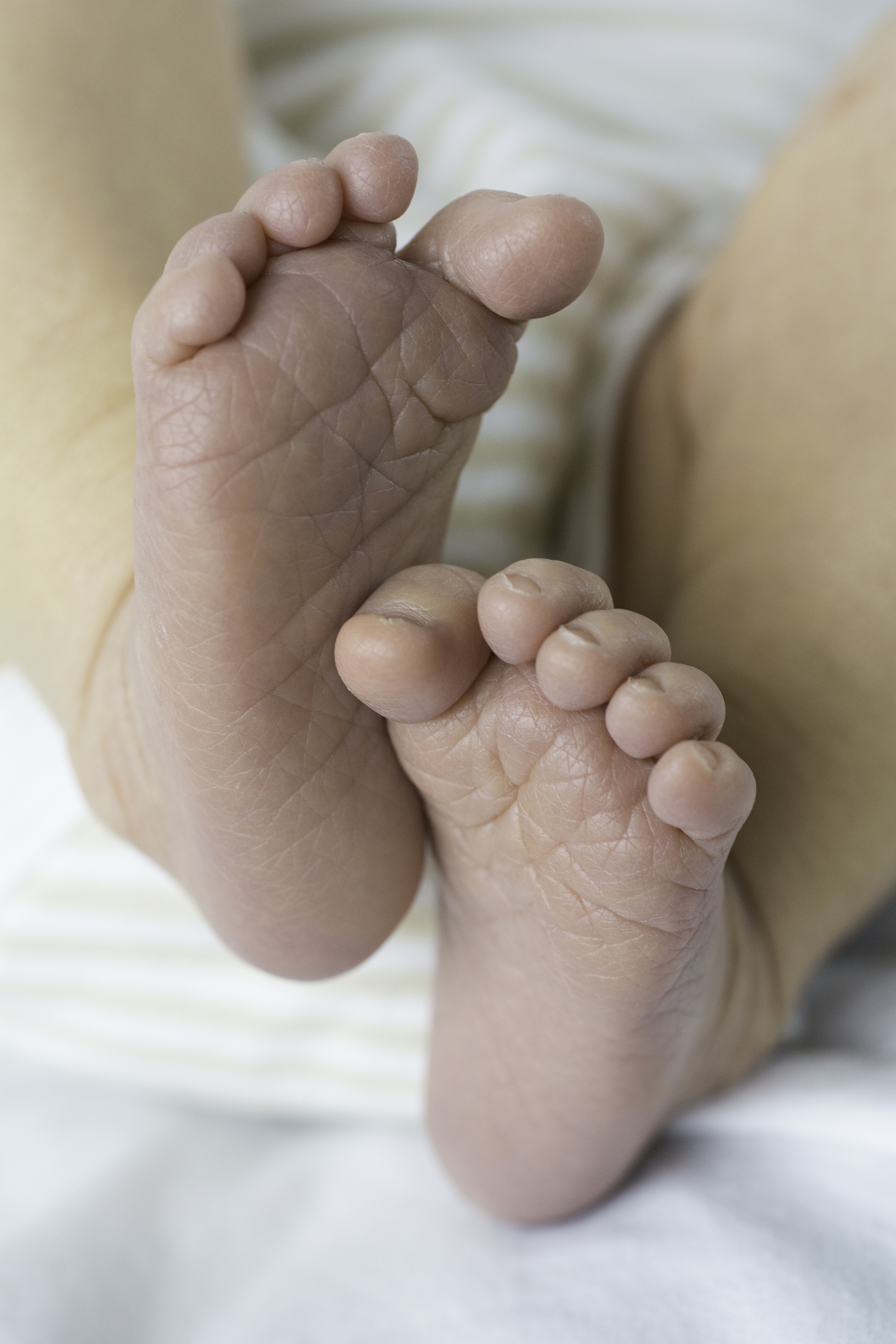 The feet of a newborn, baby male.